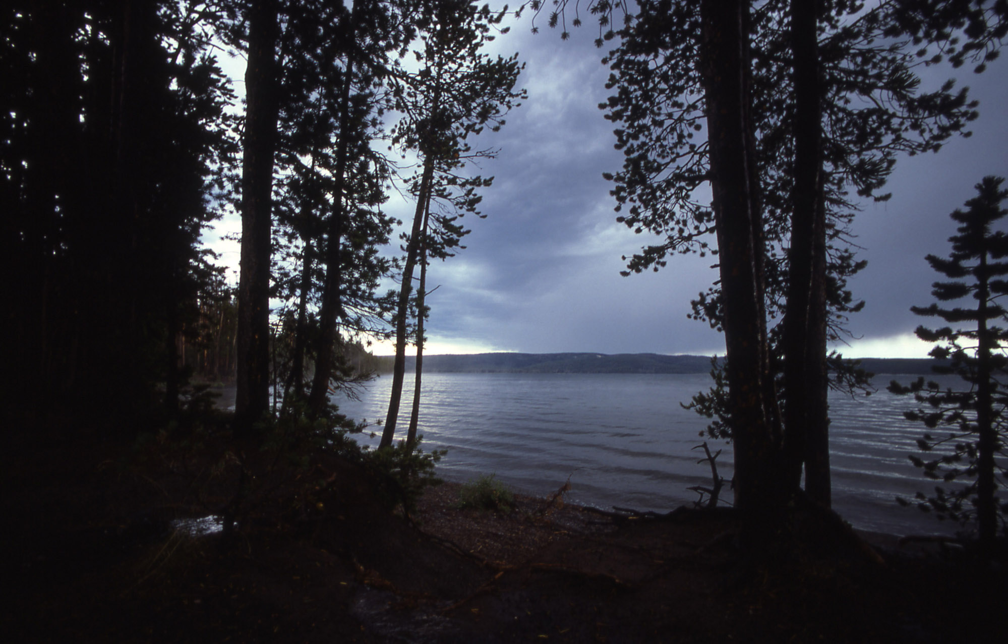 Lewis Lake in Yellowstone National Park (1977)